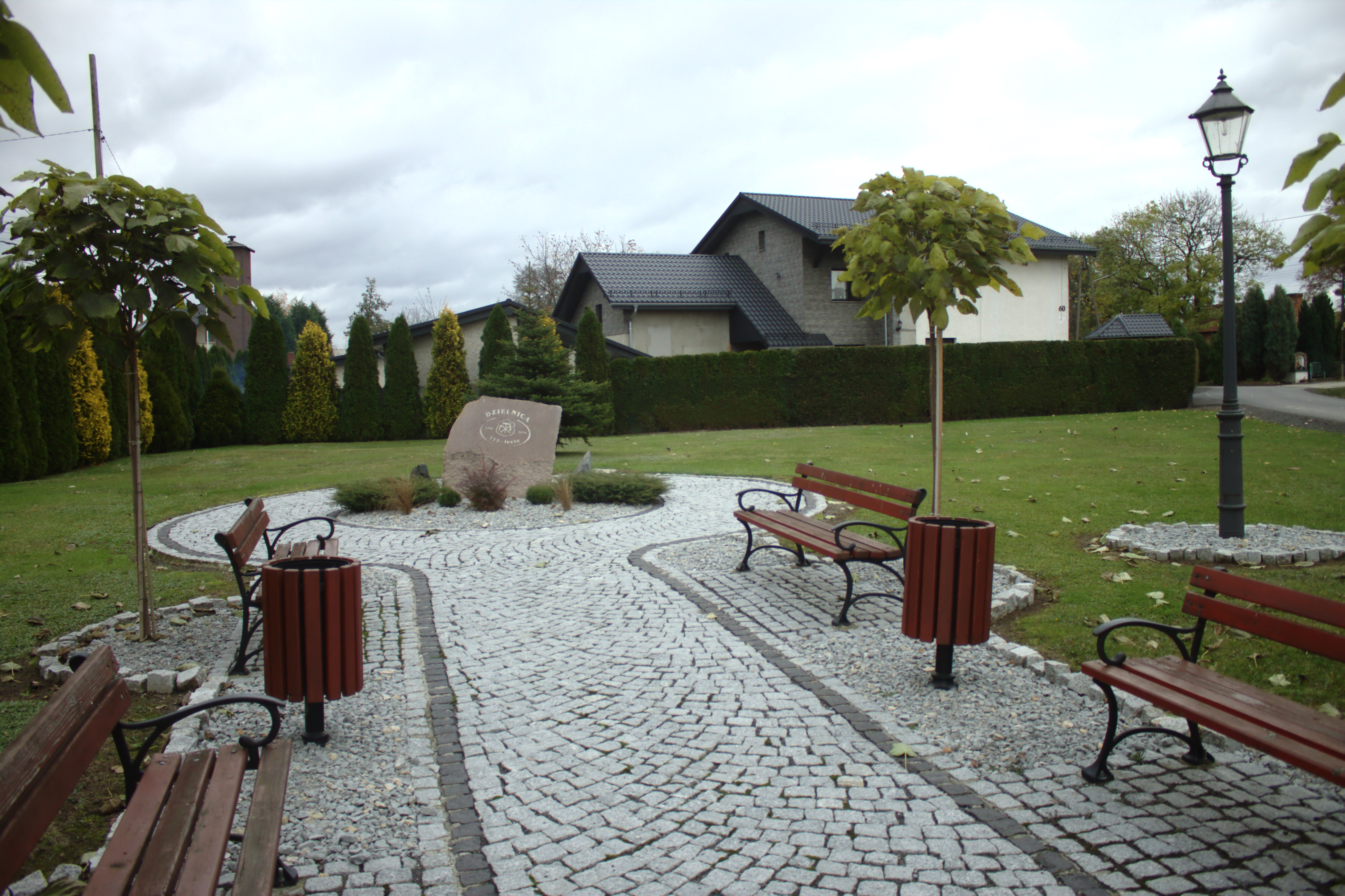 A small park in the village of Dzielnica, Poland